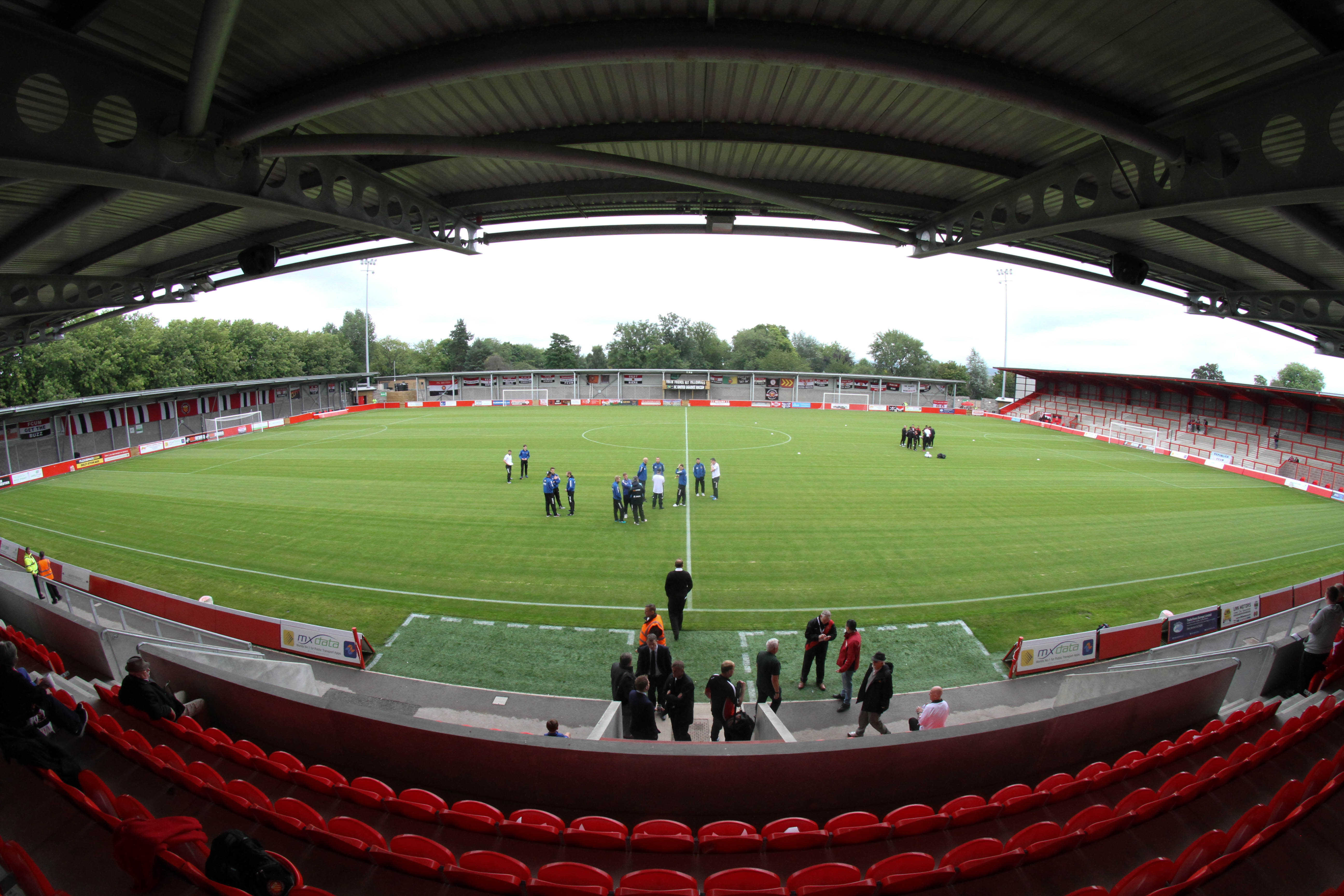 Broadhurst Park as viewed from the Main Stand, photographed shortly before a Vanarama National League North match between F.C. United of Manchester and Curzon Ashton on 31 August 2015.